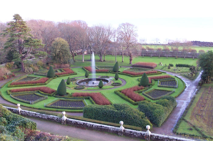 Dunrobin Castle (Scotland) - garden